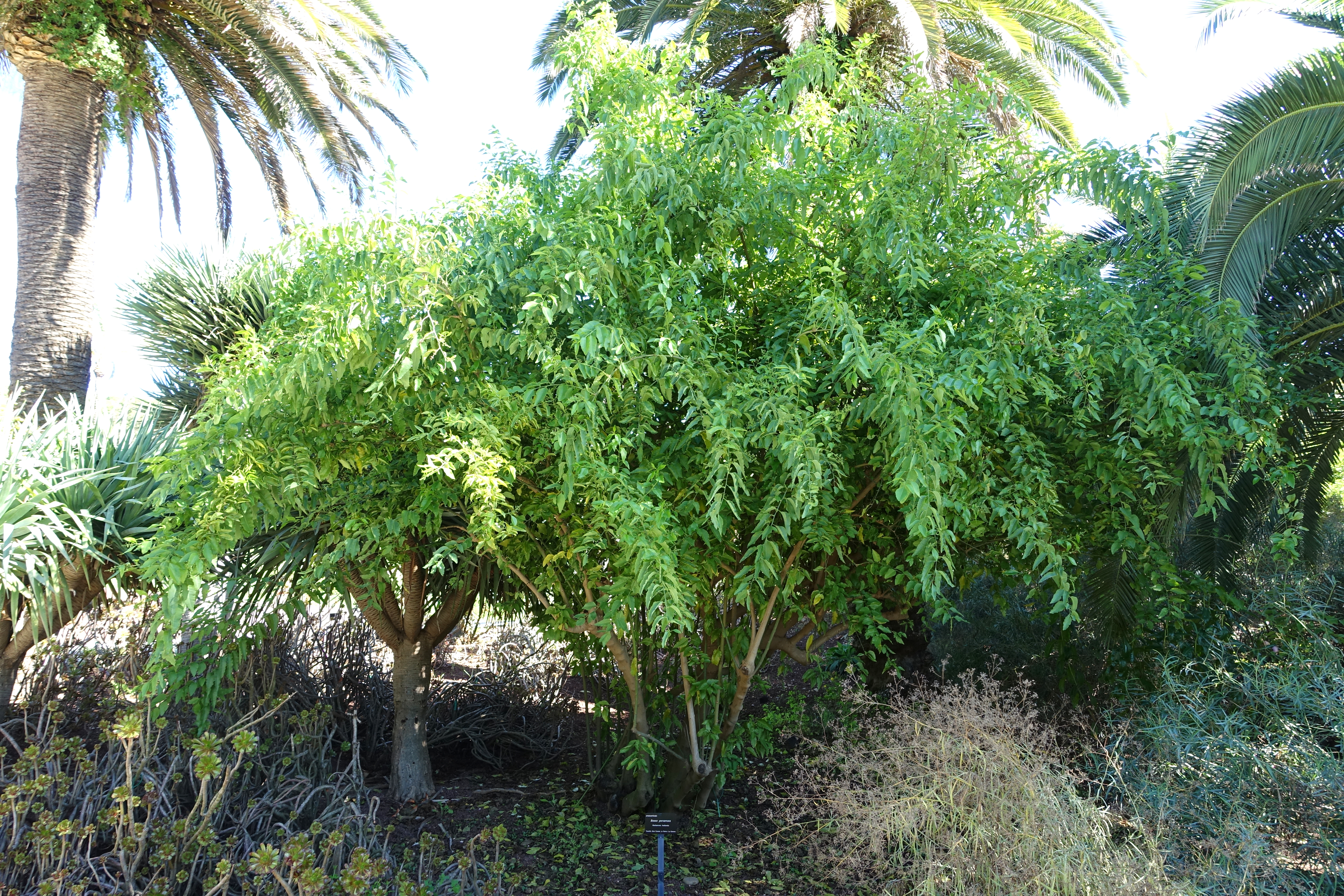 Botanical specimen in the Jardín Botánico de Barcelona - Barcelona, Spain.